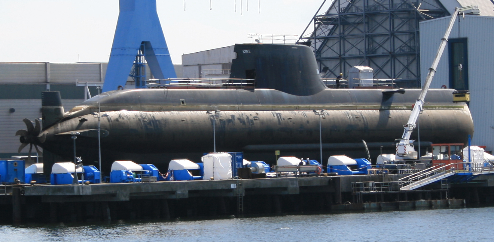 Greek submarine S-120 Papanikolis (214 type) at HDW at Kiel